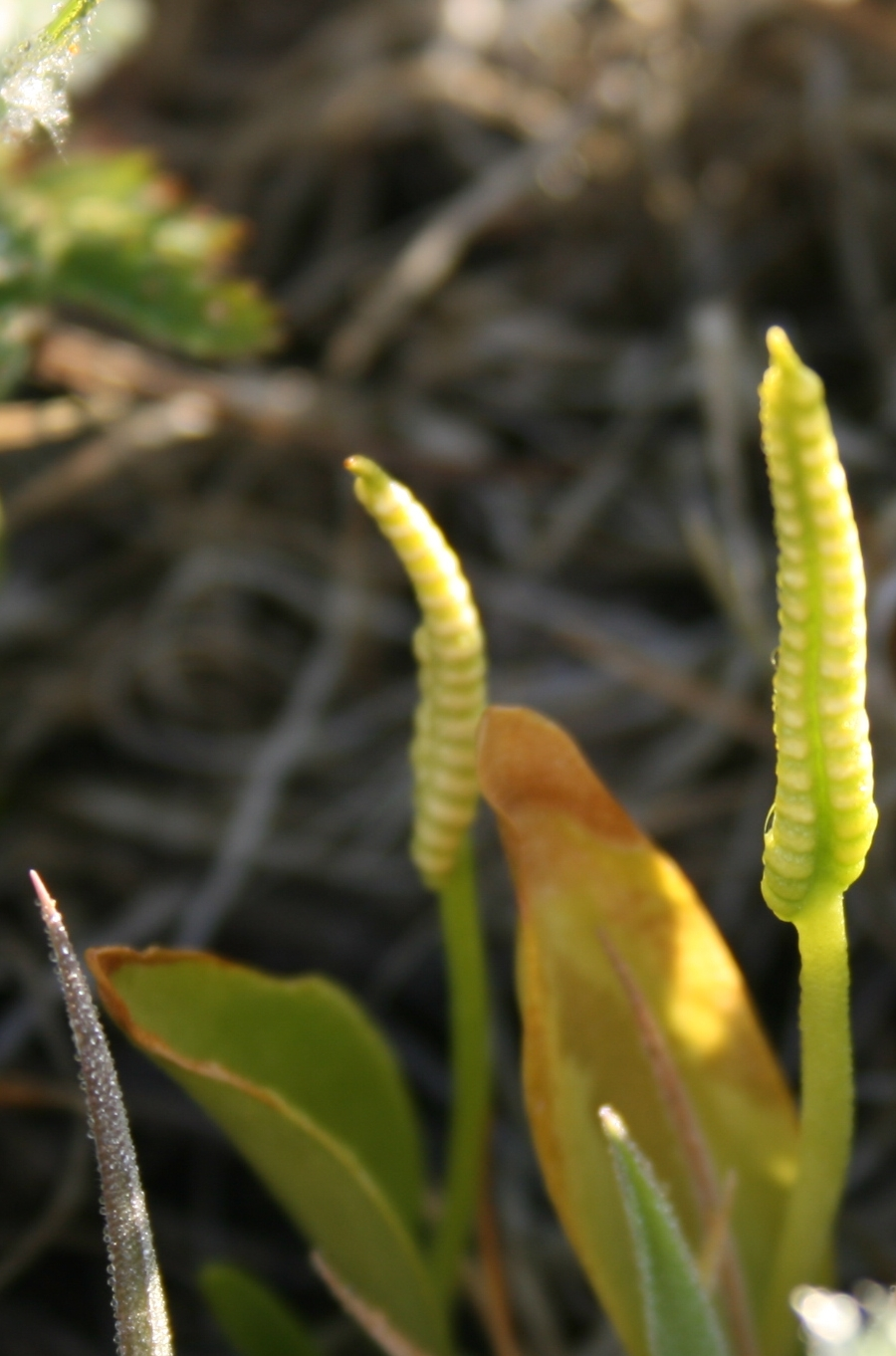 Ophioglossum vulgatum: The sporophyte